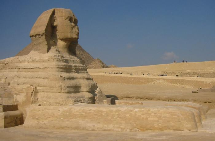 The Great Sphinx at Giza.